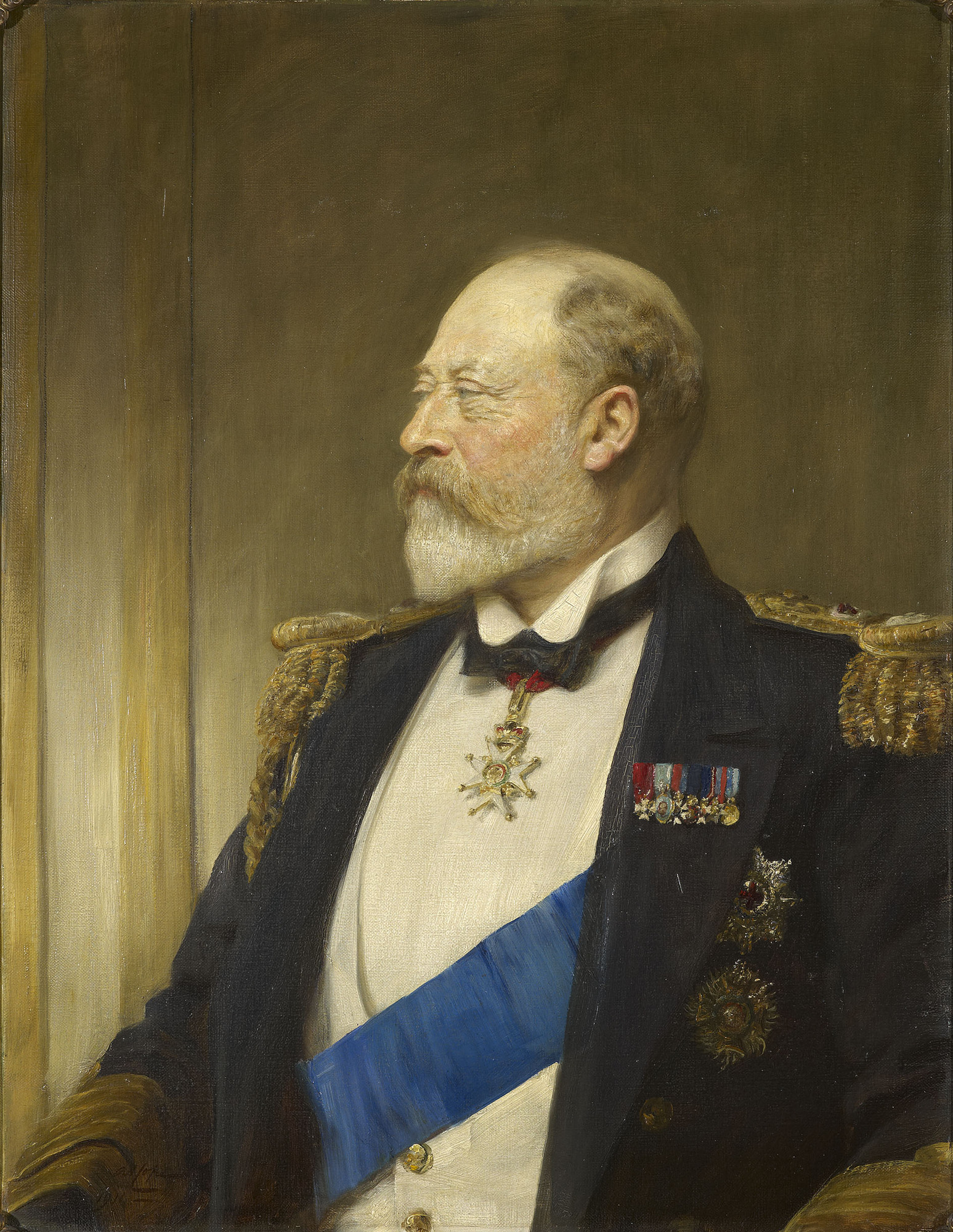 Portrait of King Edward VII